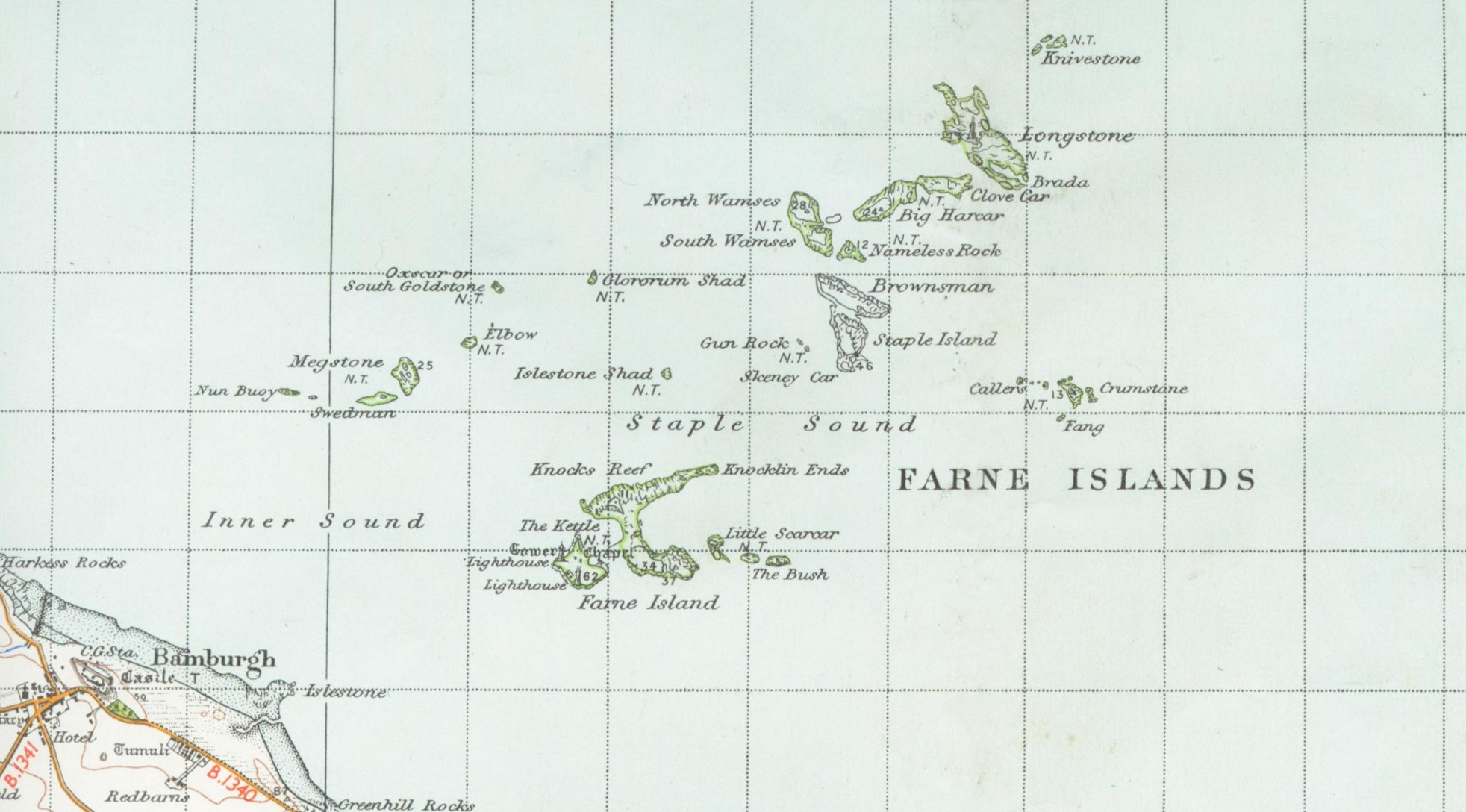 Reproduced from the 1947 OS map